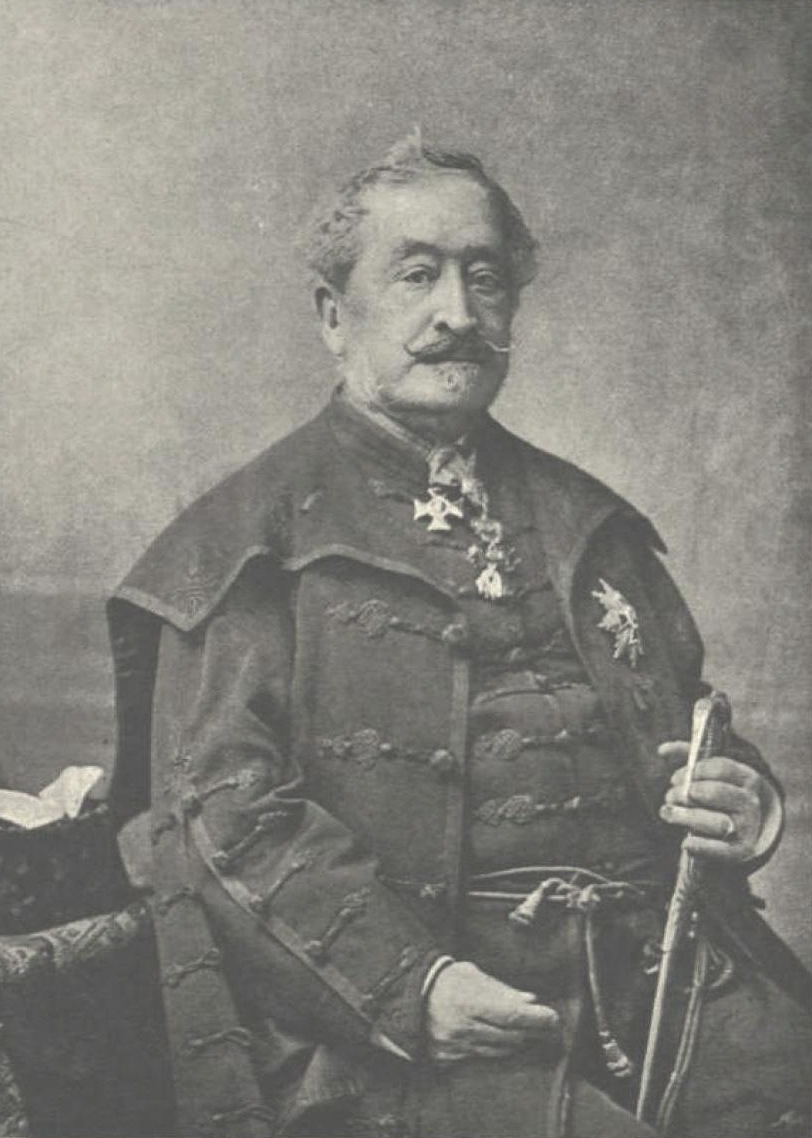 László Szőgyény-Marich, senior